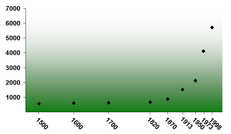 World GDP per capita between 1500 and 1998 expressed in the 1990's international dollars. Graph is derived from data in Table B-18. (World GDP) and Table B-10. (World Population) published in The World Economy: A Millennial Perspective by Angus Maddison, OECD, Paris 2001 ISBN 92-64-18998-X